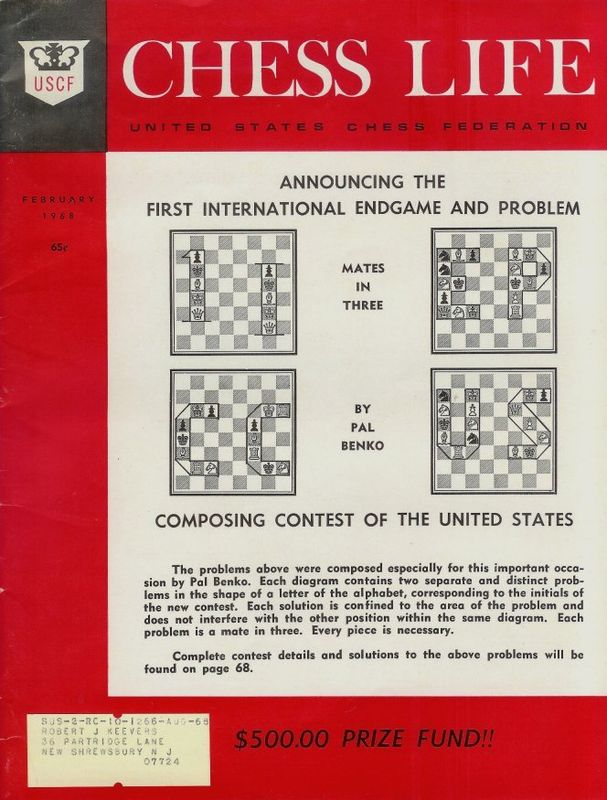 Cover of the February 1968 version of Chess Life